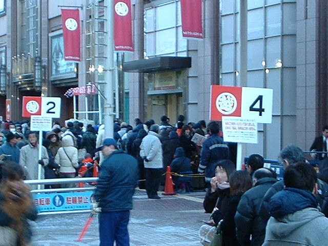 Crowd of Sendai Hatsuuri, which is a festival celebrated on the first business day of the year and stores have bargain sales. They have to wait another 2 hours until the store opens.